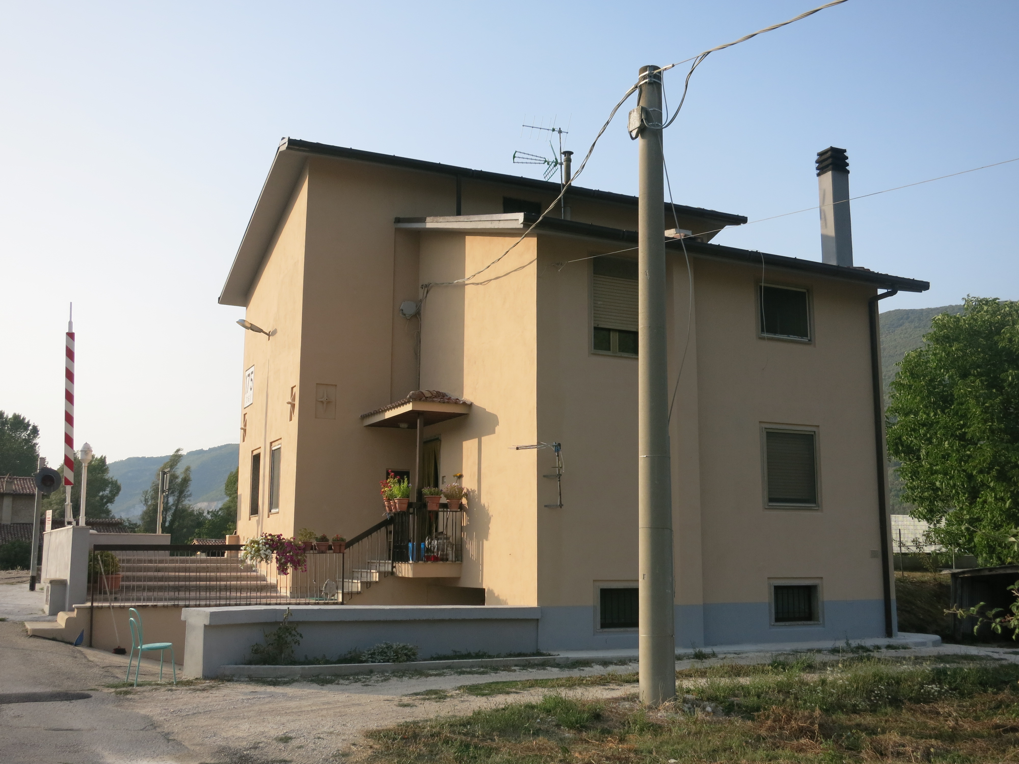 Sorgenti del Peschiera railway stop (province of Rieti, Lazio, Italy), on the Terni-Rieti-L'Aquila-Sulmona line.